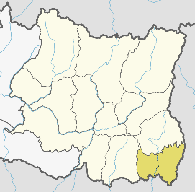 Jhapa district